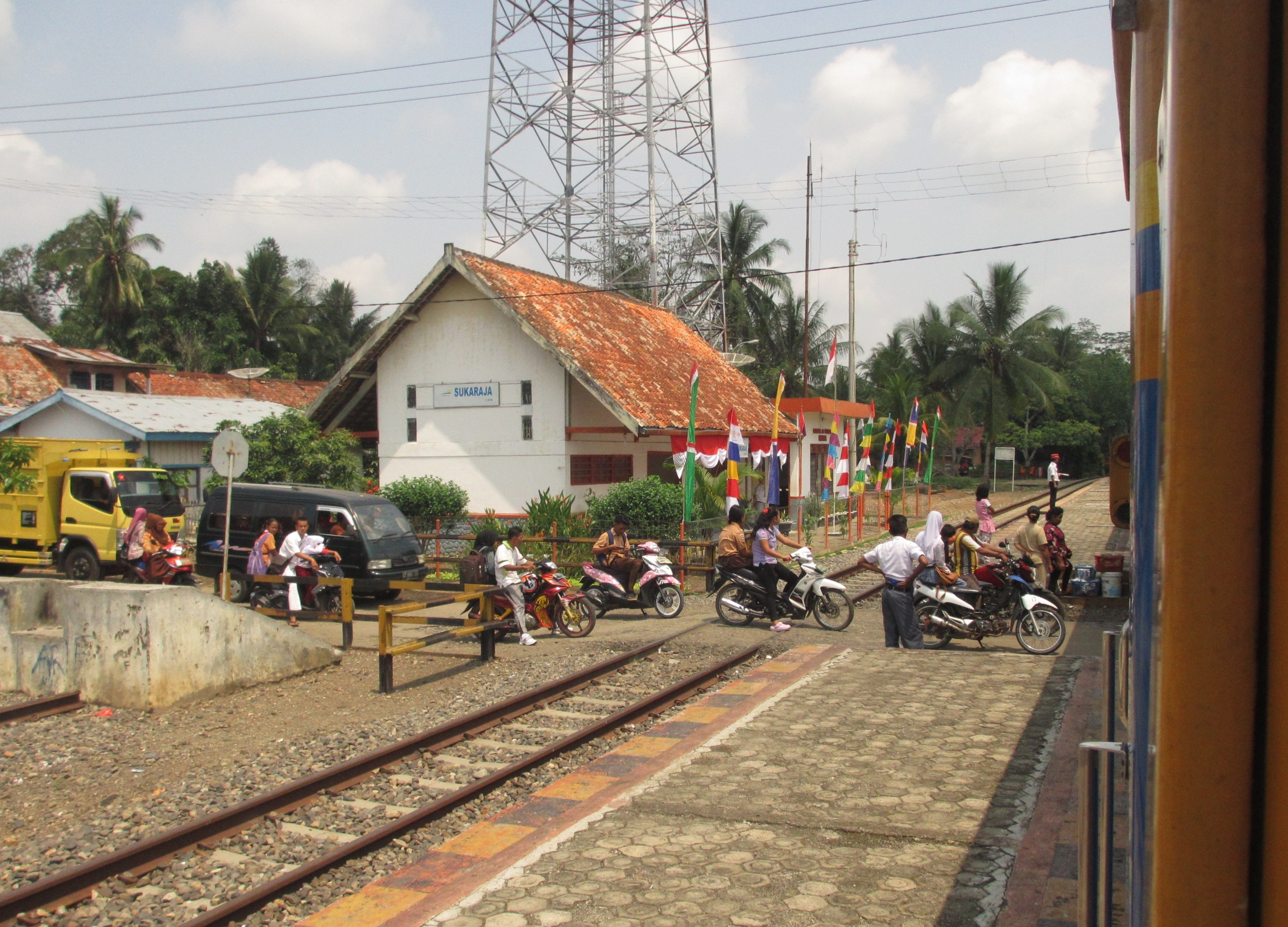 Sukaraja Railway Station, South Sumatra.